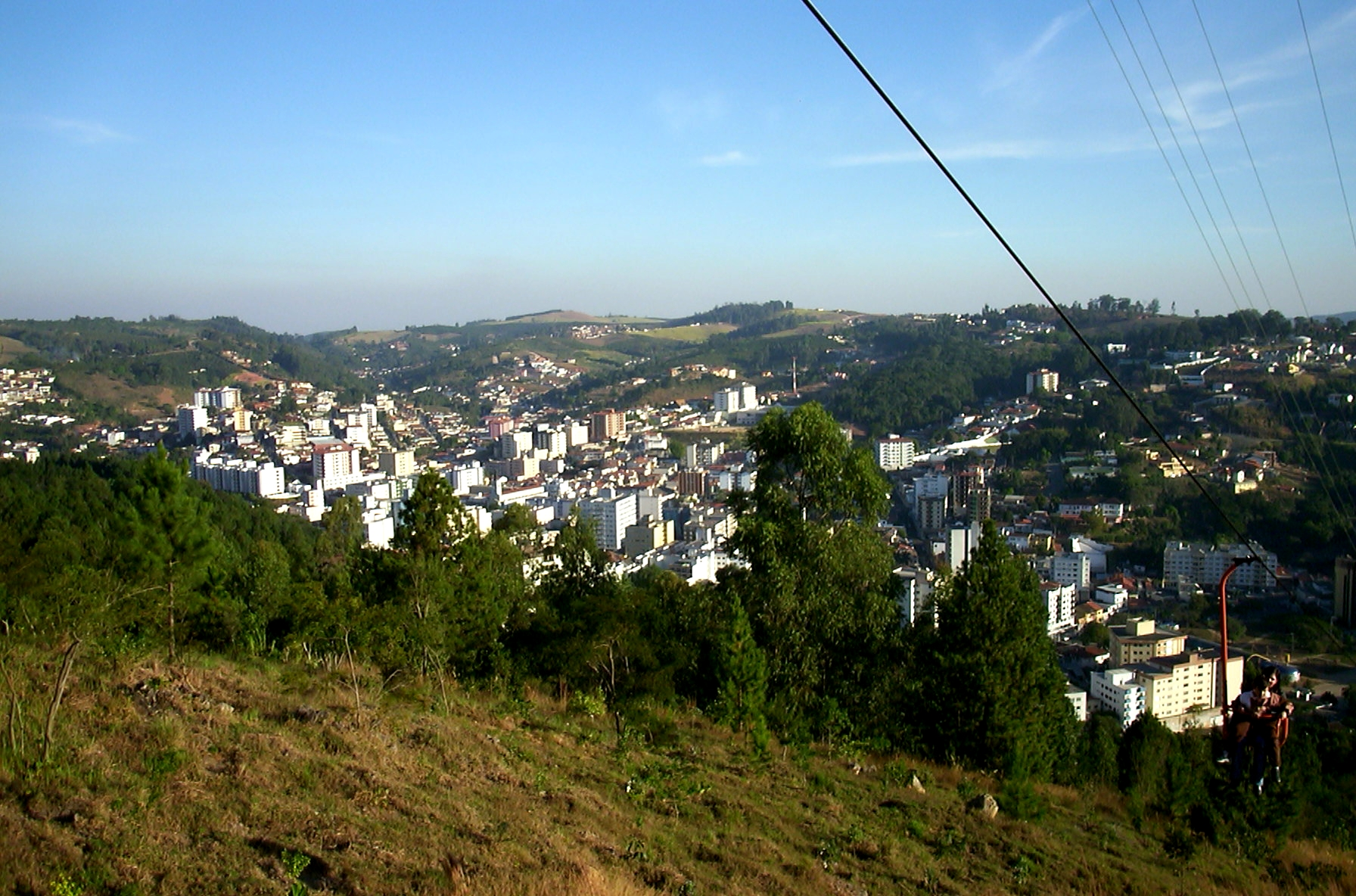 View of the city of Serra Negra, in the state of São Paulo, Brazil, from the Mirante do Redentor. Author: Renato M.E. Sabbatini, July 2003.